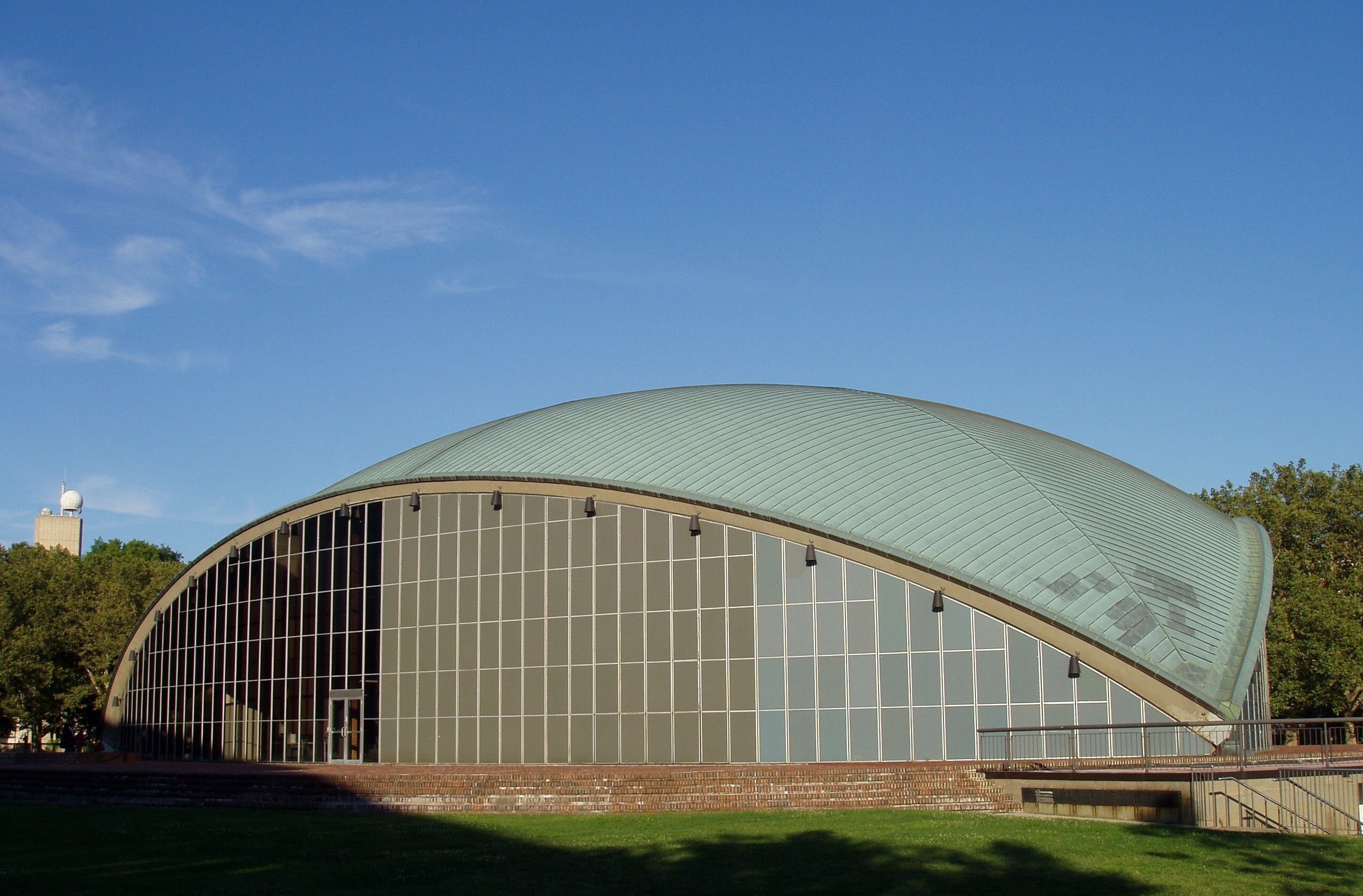 Kresge Auditorium, Massachusetts Institute of Technology (MIT), Cambridge, Massachusetts. Architect Eero Saarinen, 1954. View from rear with I. M. Pei's Green Building in distance. Photograph by me, August 2005.